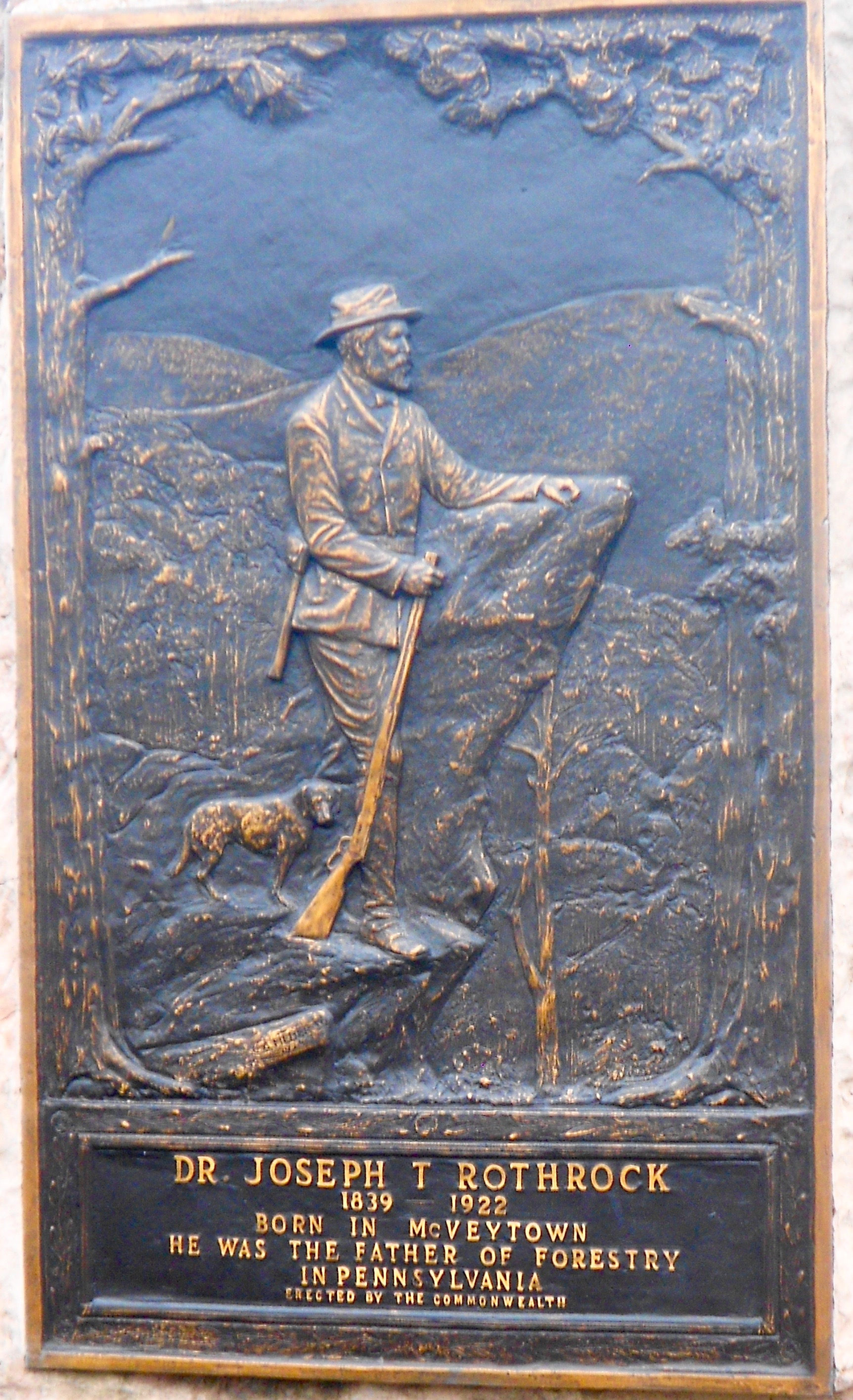 Plaque placed by the Commonwealth of Pennsylvania to Joseph Trimbel Rothrock in McVeytown, Pennsysvania. Dedicated Nov. 1, 1924, with no copyright mark - thus the palque is public domain